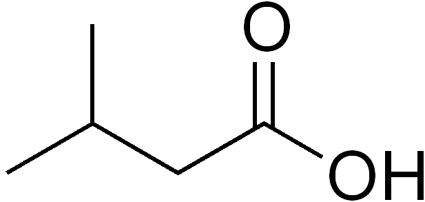 chemical structure of isovaleric acid